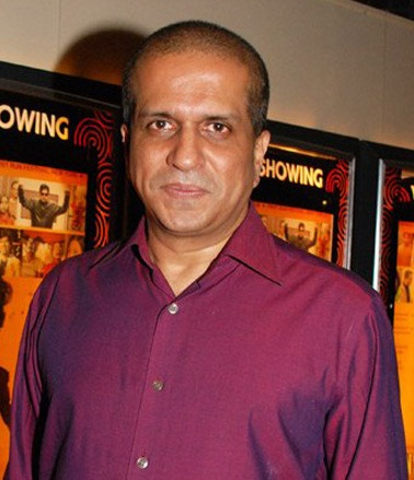 Darshan Jariwala at Premiere of Loins of Punjab Presents